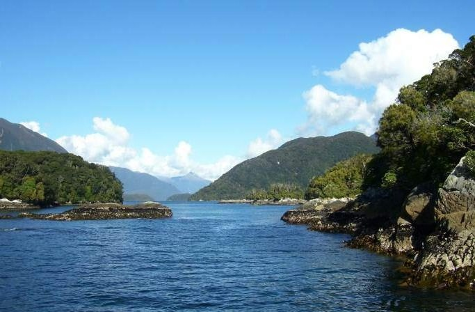 The Channel in the Shelter Islands at the Entrance of Doubtful Sound Fiordland New Zealand